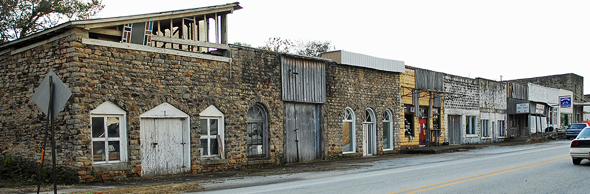 Alpena's downtown